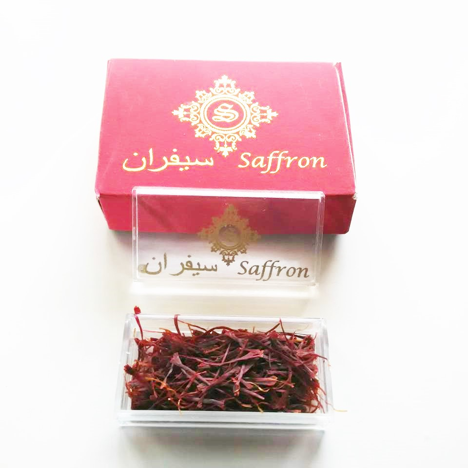 Pure Kashmiri saffron